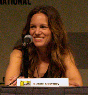 Susan Downey promoting the 2009 film Sherlock Holmes at San Diego Comic-Con.